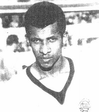 Photo of the brazilian soccer player Uriel Fernandes Teleco. Taken in 1933.